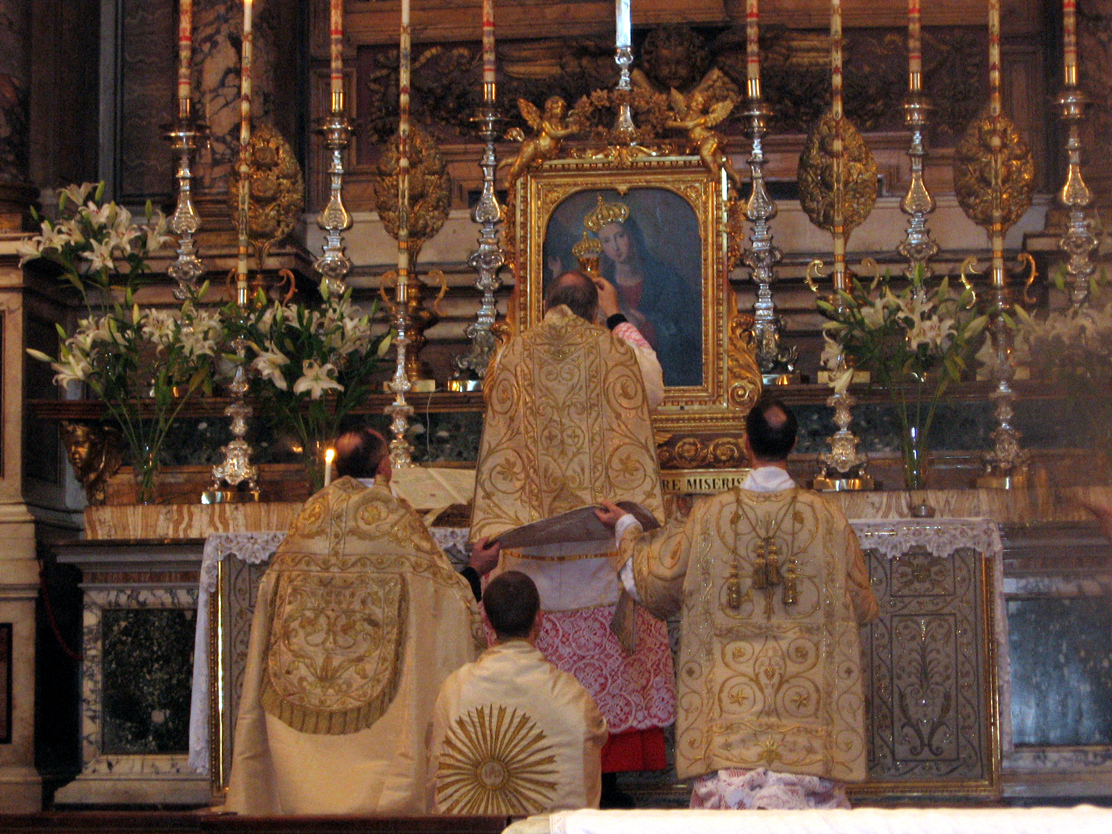 Description= Church of Santissima Trinità sei Pellegrini, Rome - High Mass celebration